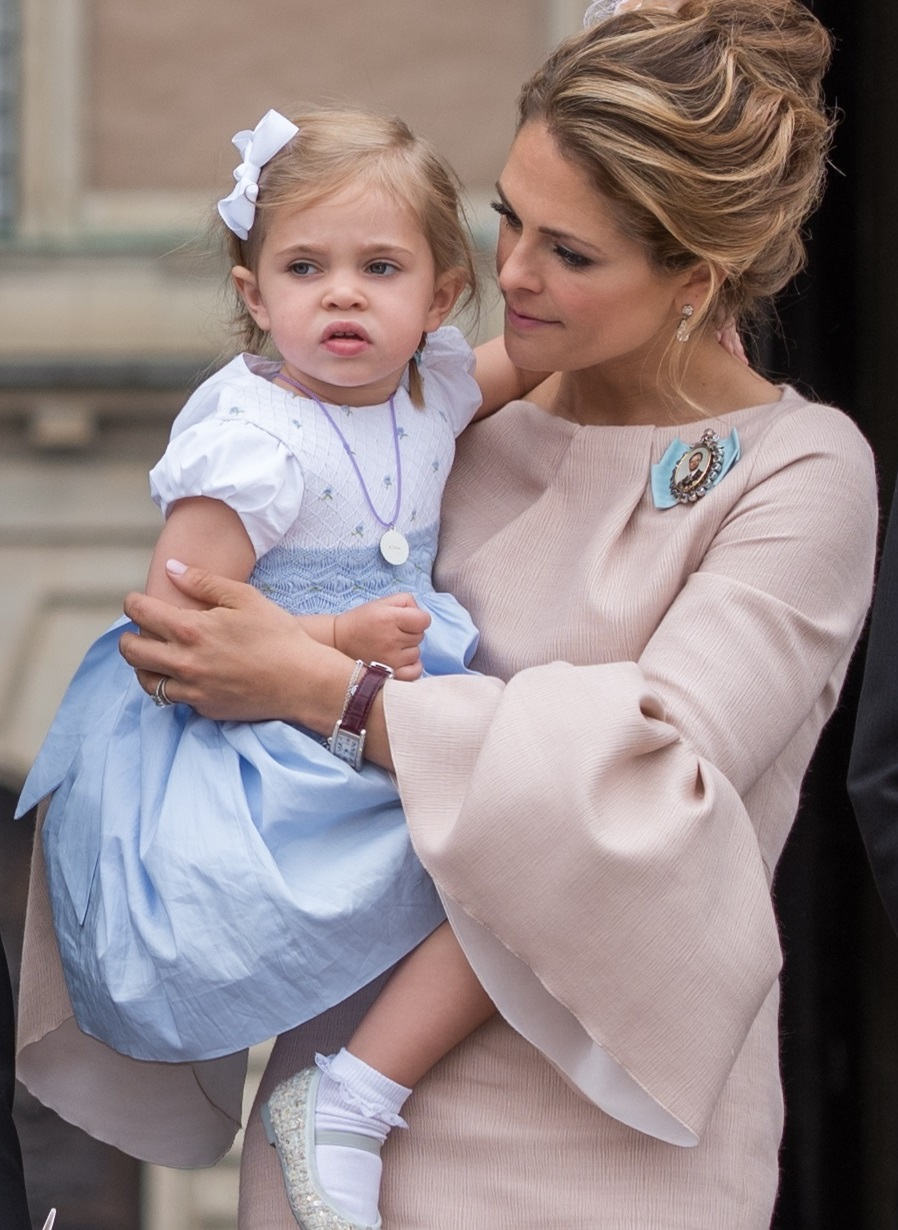 Princess Leonore May 2016